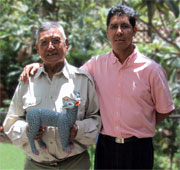 Oaxaca woodcarver Manuel Jimenez with his son, Isaias, holds one of his creations at his home in San Antonio Arrazola.